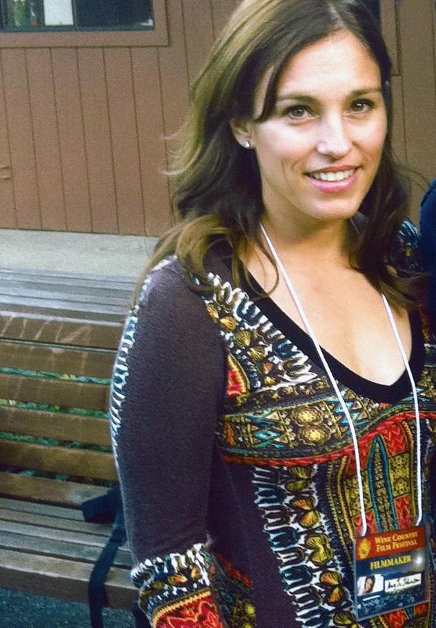 Director Amy Jo Johnson at Boston Film Festival 2015